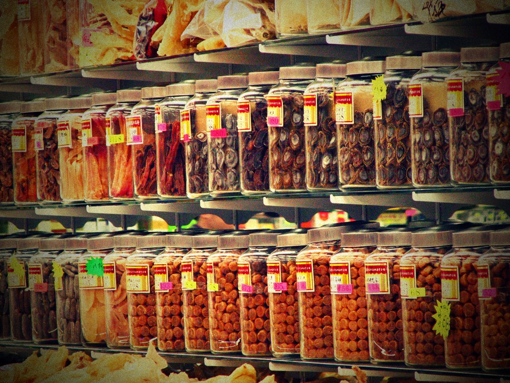 Chinese herbal store reposted with lomo effects. Created with - fun with your photos